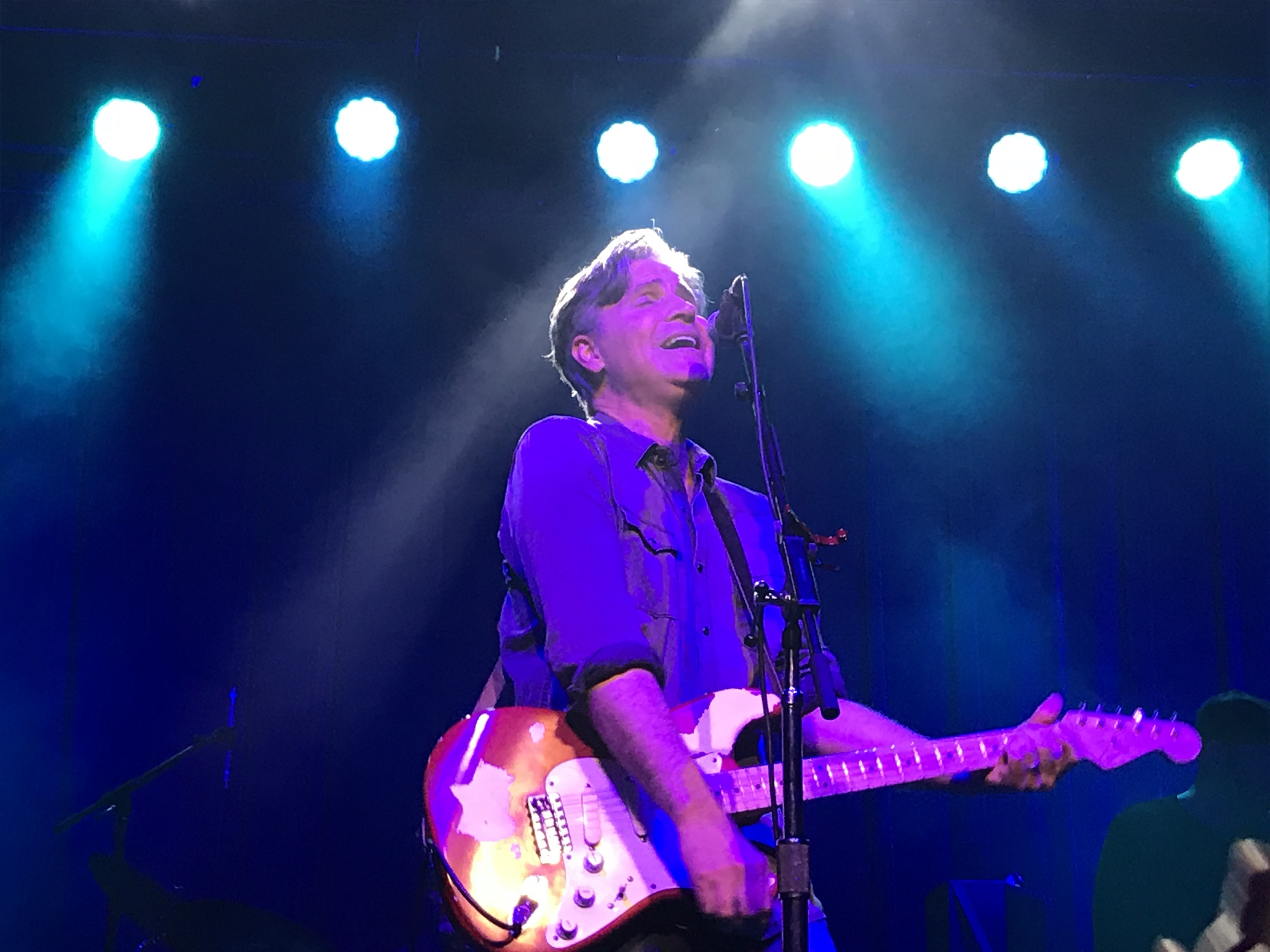 Martin Zellar at First Avenue, Minneapolis May 5th 2018